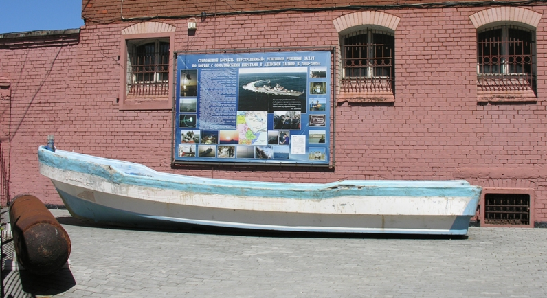 Captured boat in Baltiysk